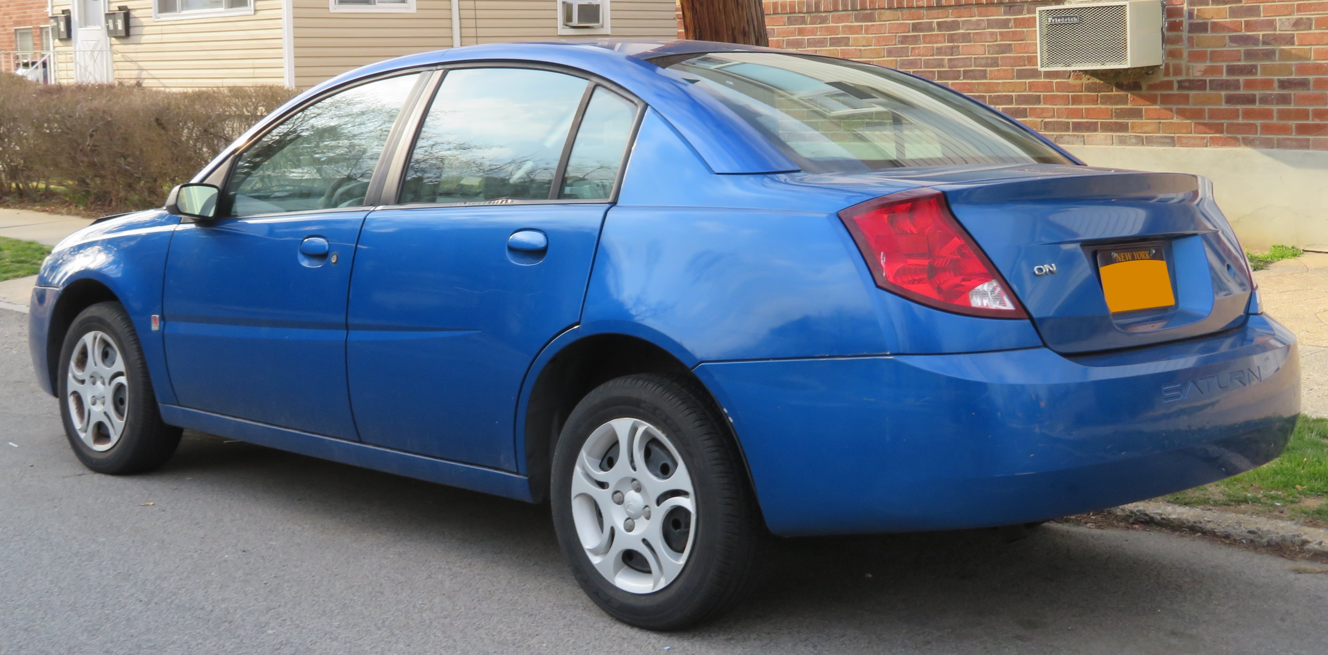 In Queens, New York